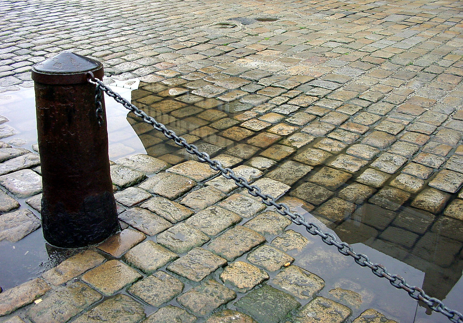 quai Franklin, on the port of Saint-Goustan, in Auray Morbihan, Britain, France